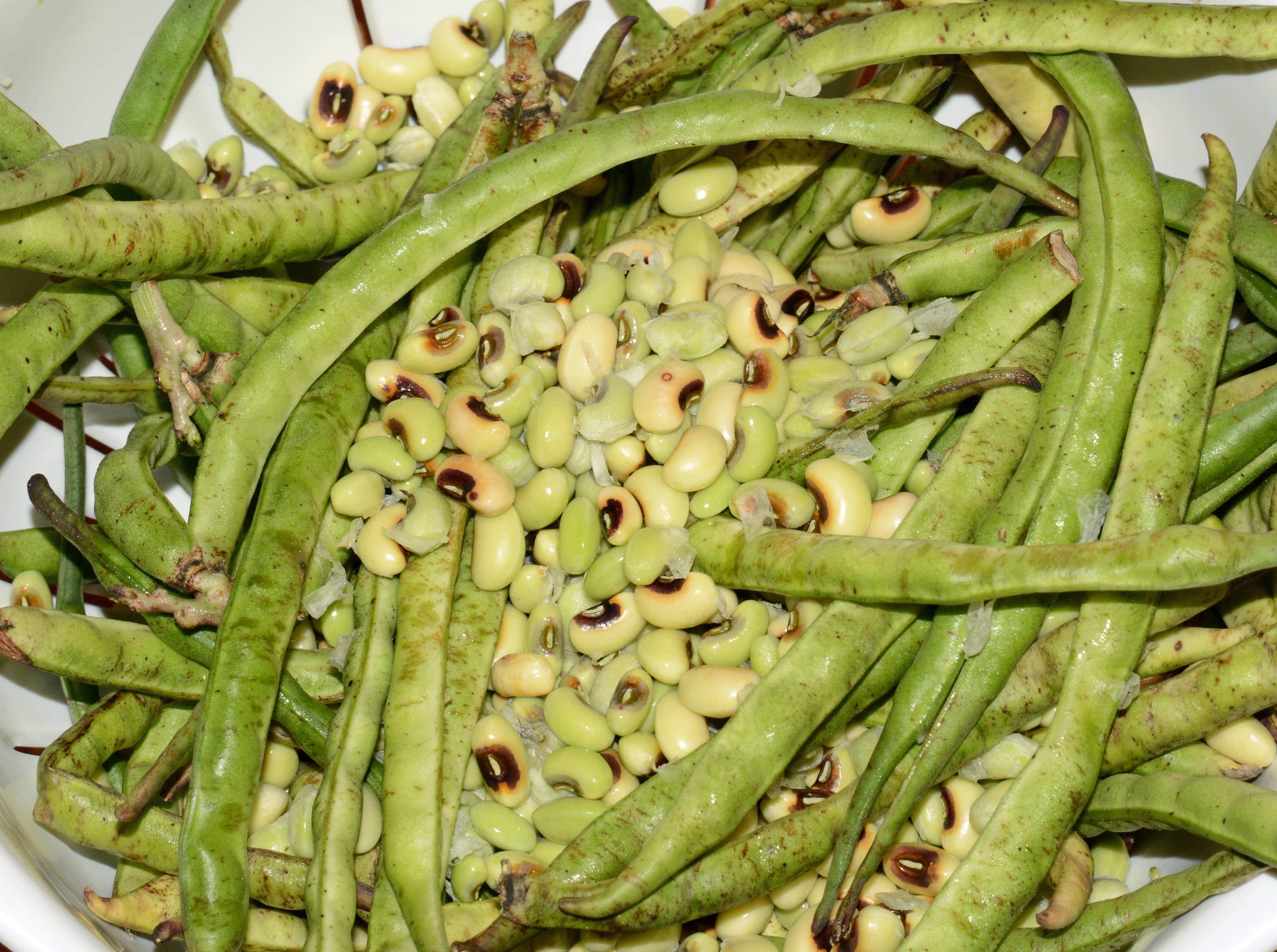 Black-eyed peas, some in the shell; some shelled